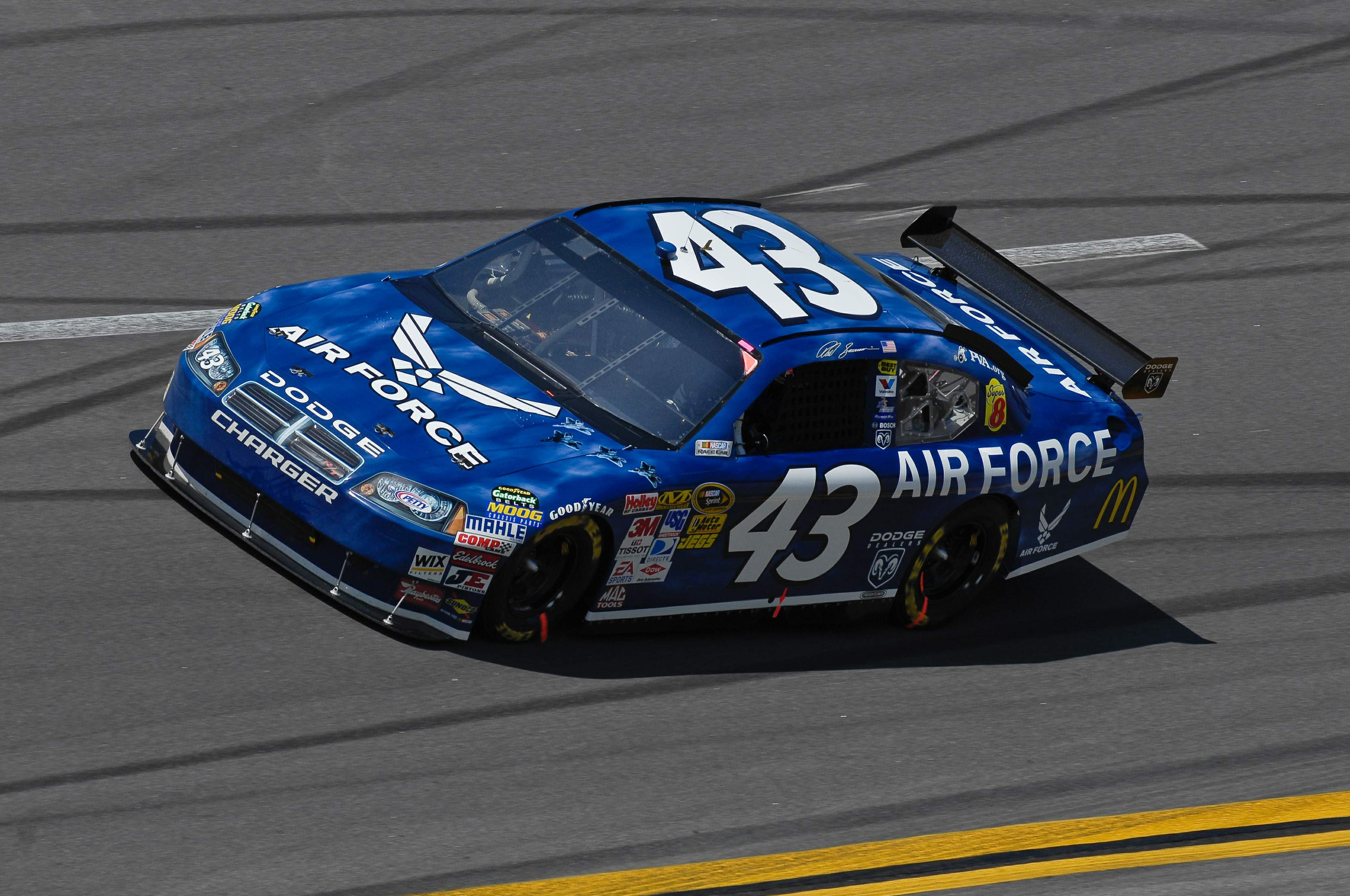 The #43 Air Force-sponsored NASCAR driven by Reed Sorenson makes its way around the track during the Aaron's 499 race April 26 at Talladega Superspeedway in Talladega, Ala. This was the first race for the #43 Richard Petty Motor Sports car featuring the Air Force primary paint scheme. The car started 41st but finished 11th in the race. (U.S. Air Force photo/Master Sgt. Scott Reed)